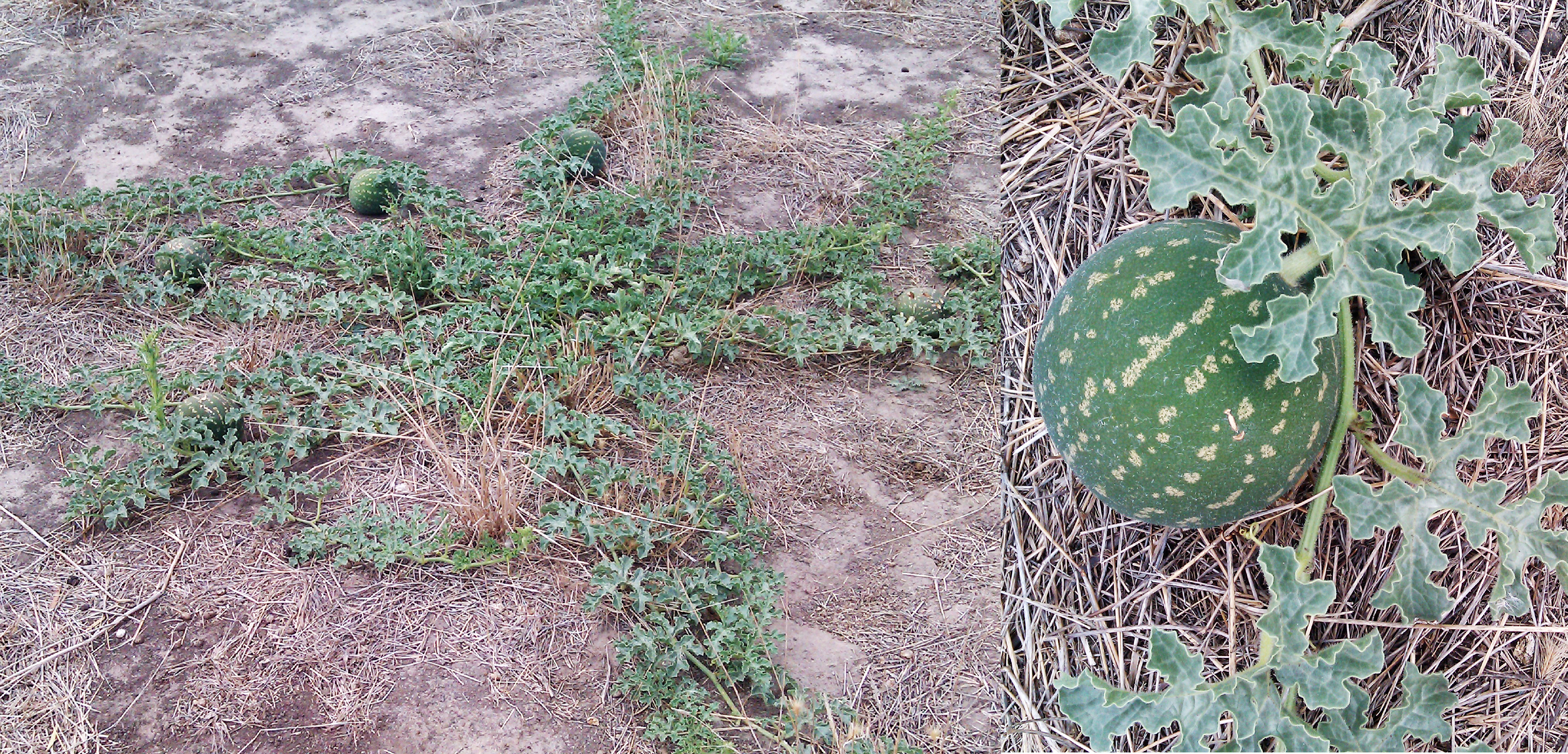 Citrullus Lanatus, known as the Afghan, Camel or Wild Melon in Australia, where it is a weed. Very closely related to the watermelon which is Citrullus lanatus var. Caffer or Citrullus lanatus var. lanatus. Many people refer to the pictured plant as a paddy melon, but this is a misnomer; the Cucumis myriocarpus (Paddy Melon) has smaller fruit, a denser habit and brighter leaf colour.